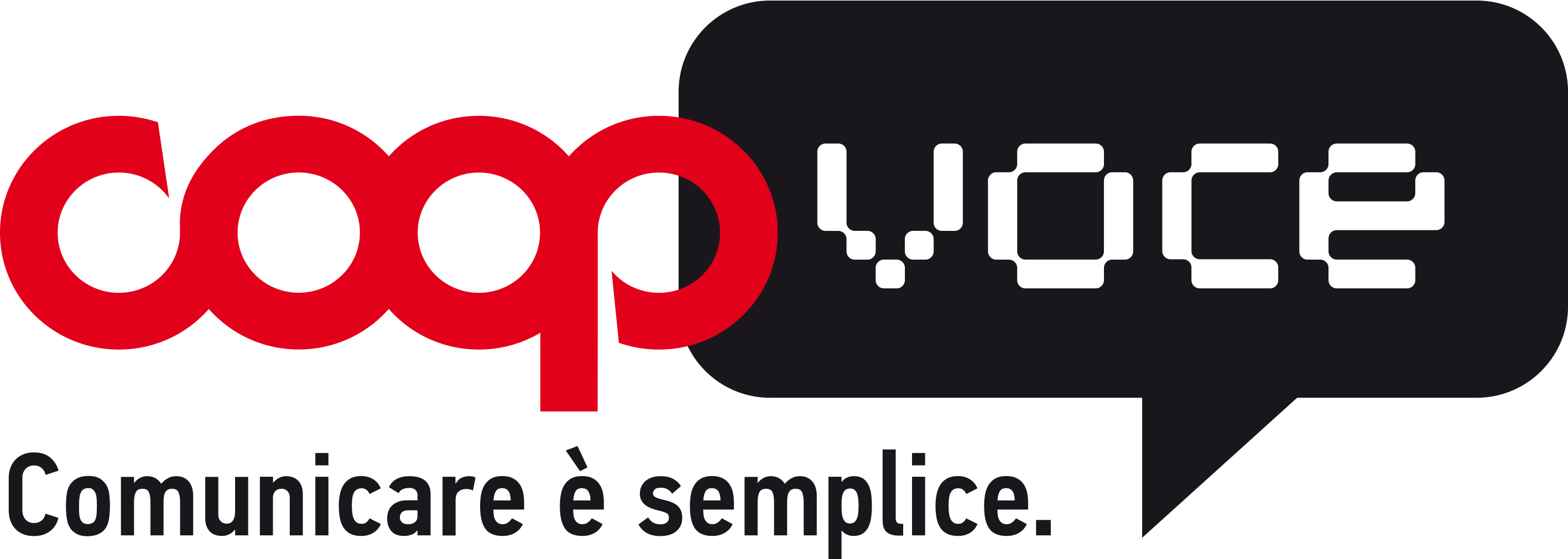 Logo CoopVoce